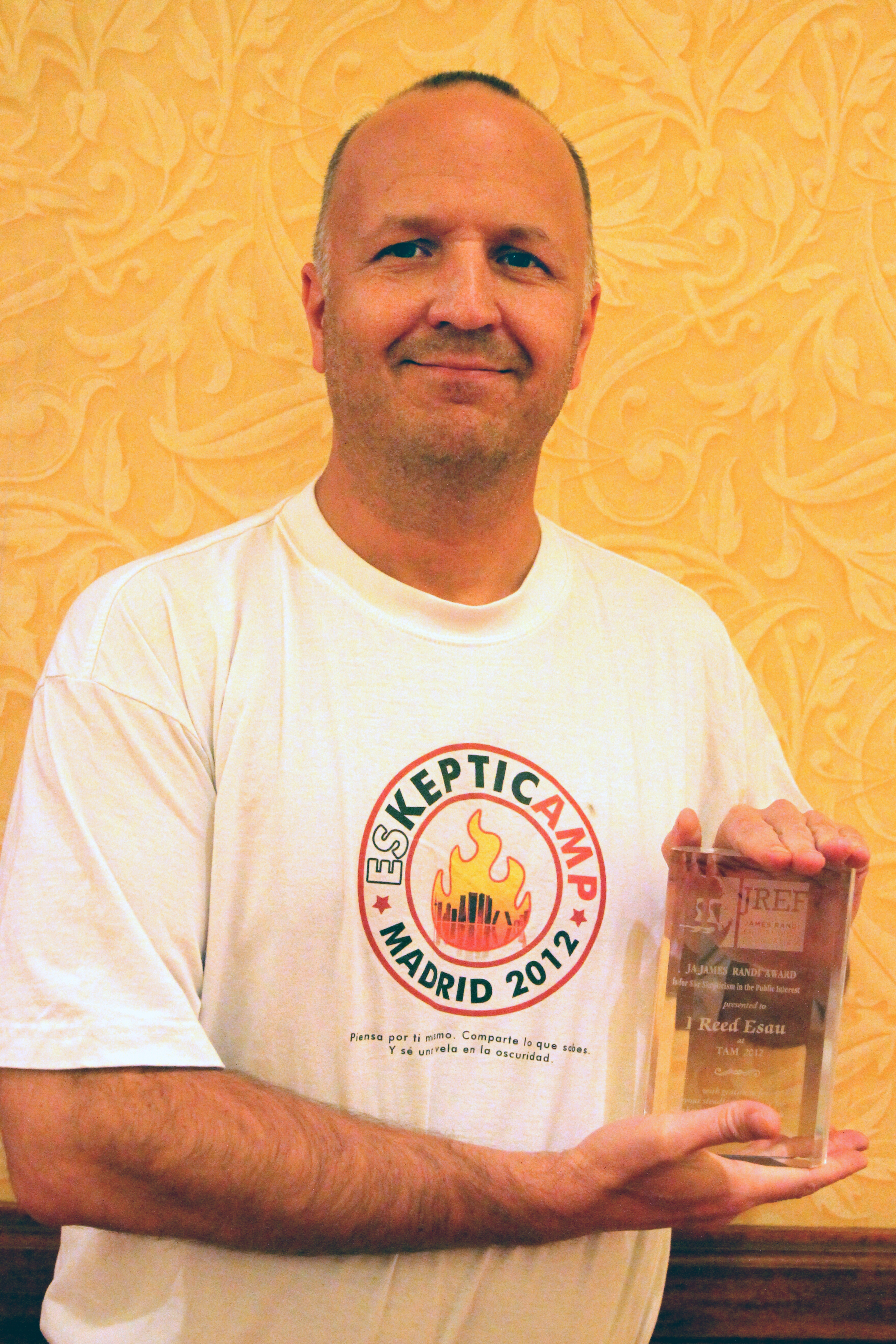 Reed Esau receives James Randi Award for Skepticism in the Public Interest, at TAM 2012. Award is inscribed with "With gratitude for your steadfast advocacy for skepticism at the grass roots and around the world"